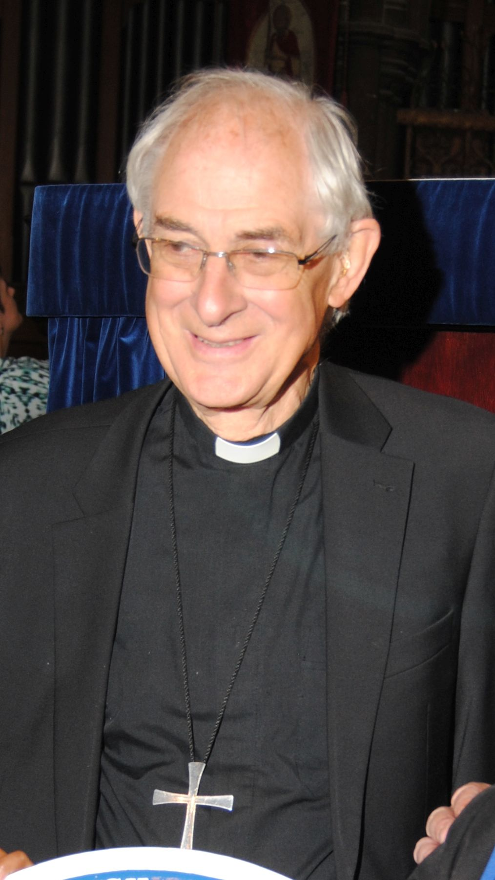 The former Bishop of Birmingham, Mark Santer, at the unveiling of a Birmingham Civic Society blue plaque, commemorating Kate Bunce, at Church of St Alban and St Patrick, Highgate, Birmingham, England, on 10 September 2015.